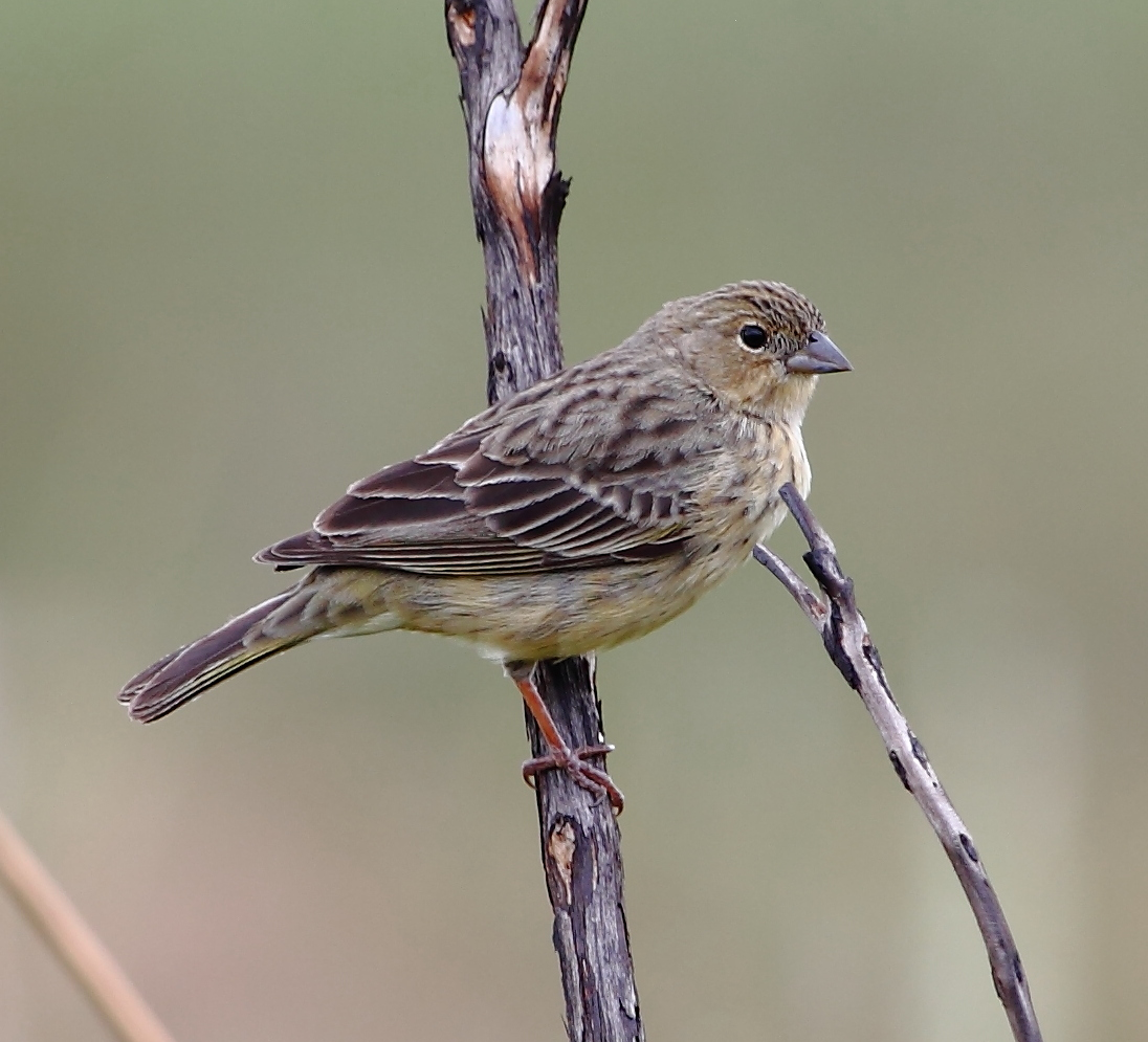 Stripe-tailed yellow finch (female at Serra da Canastra National Park - MG - Brazil